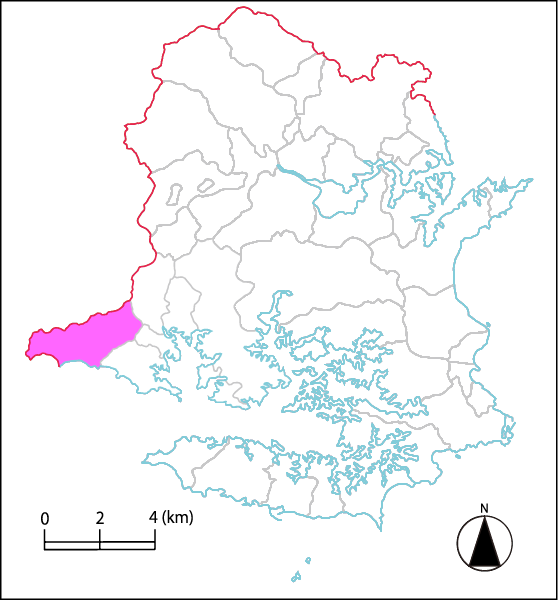 This is the map of Hamajimacho-Nambari, Shima, Mie, Japan.